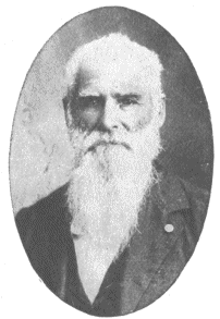 Photograph of Daniel Freeman, first person to file for a claim under the Homestead Act.